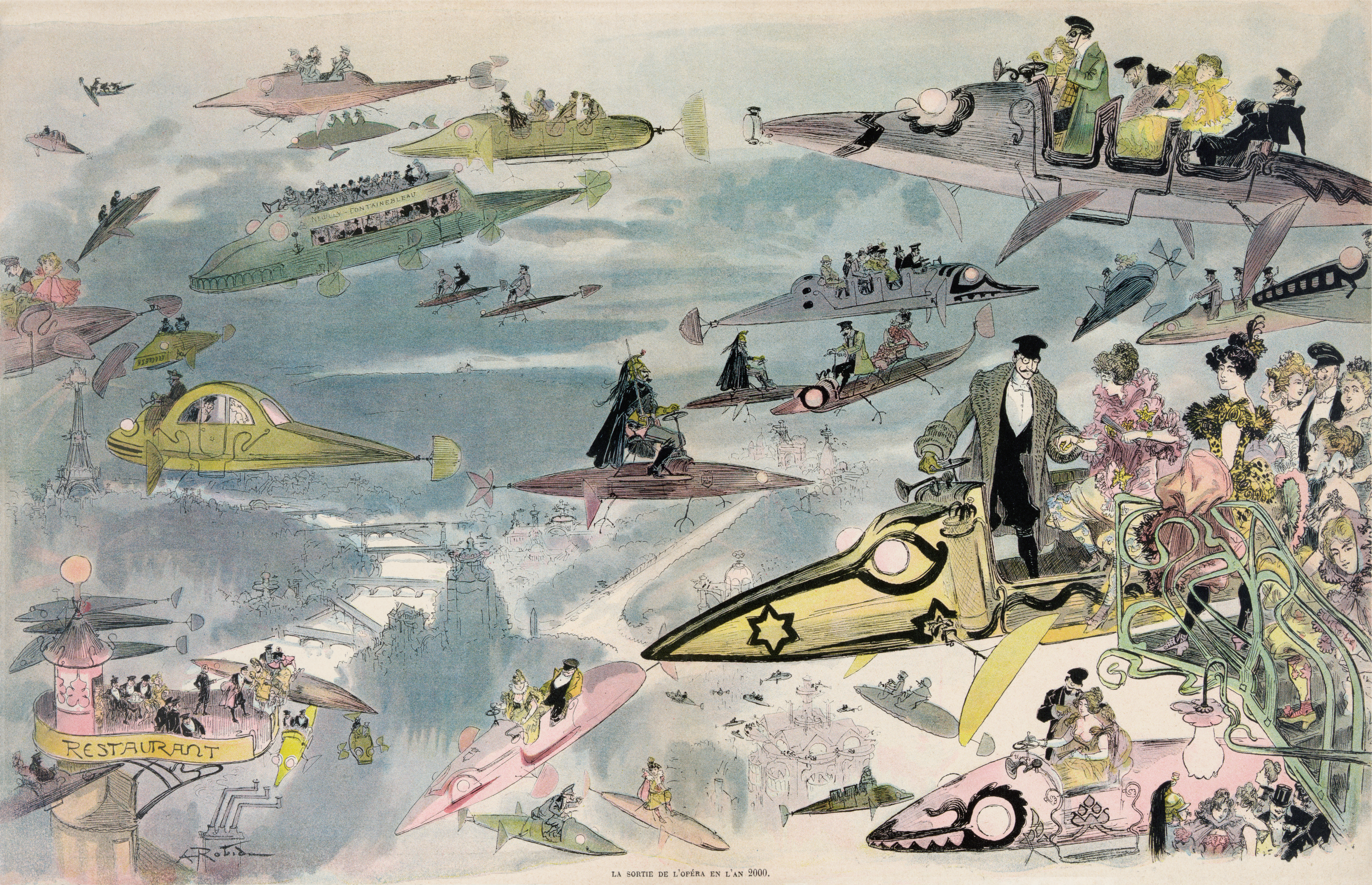 Print shows a futuristic view of air travel over Paris as people leave the Opera. Many types of aircraft are depicted including buses and limousenes, police patrol the skies, and women are seen driving their own aircraft. 1 print : lithograph, hand-colored.